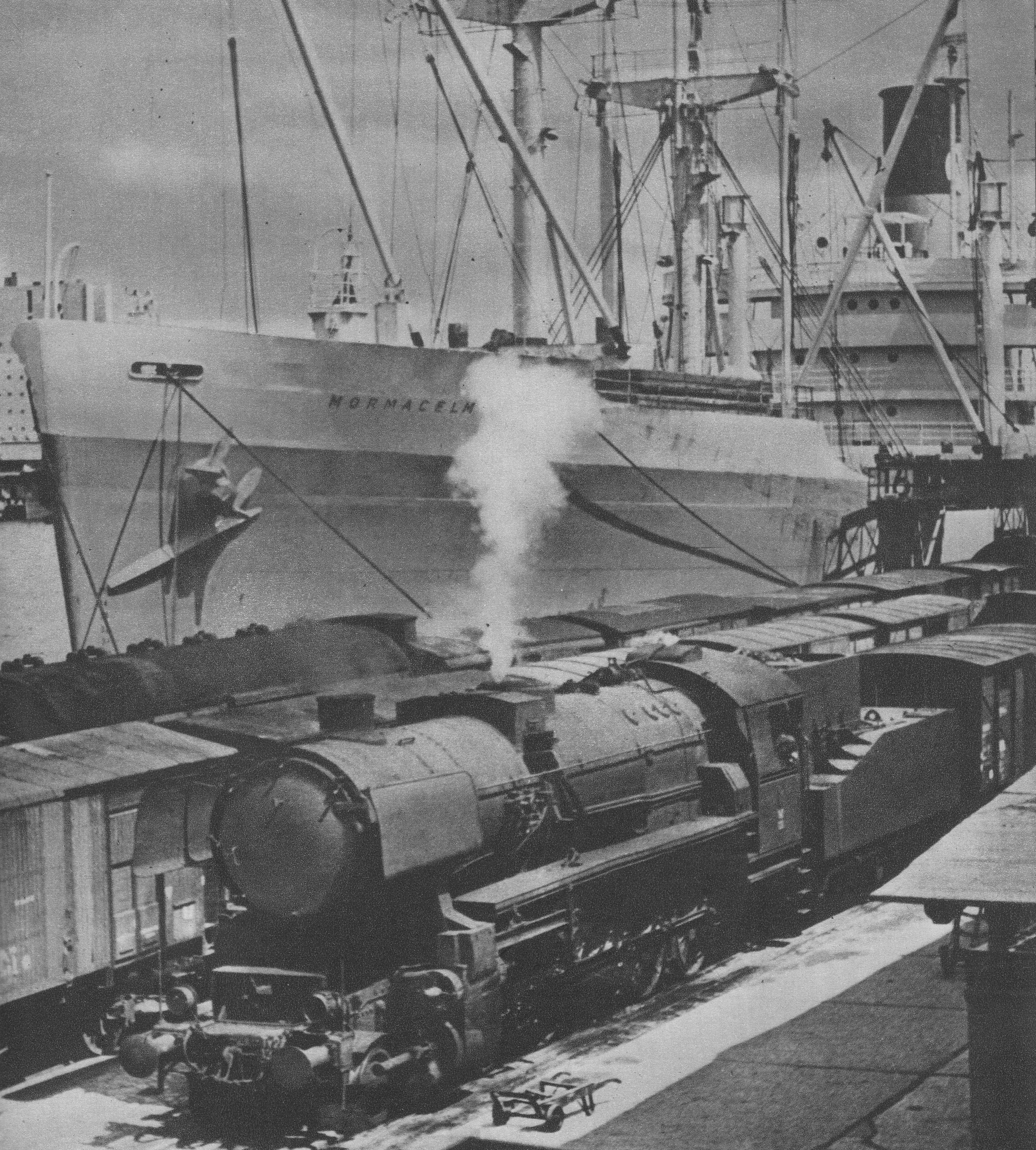 Port of Gdynia